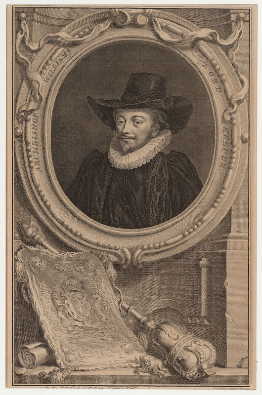 John Williams, Archbishop of York (1582-1650)